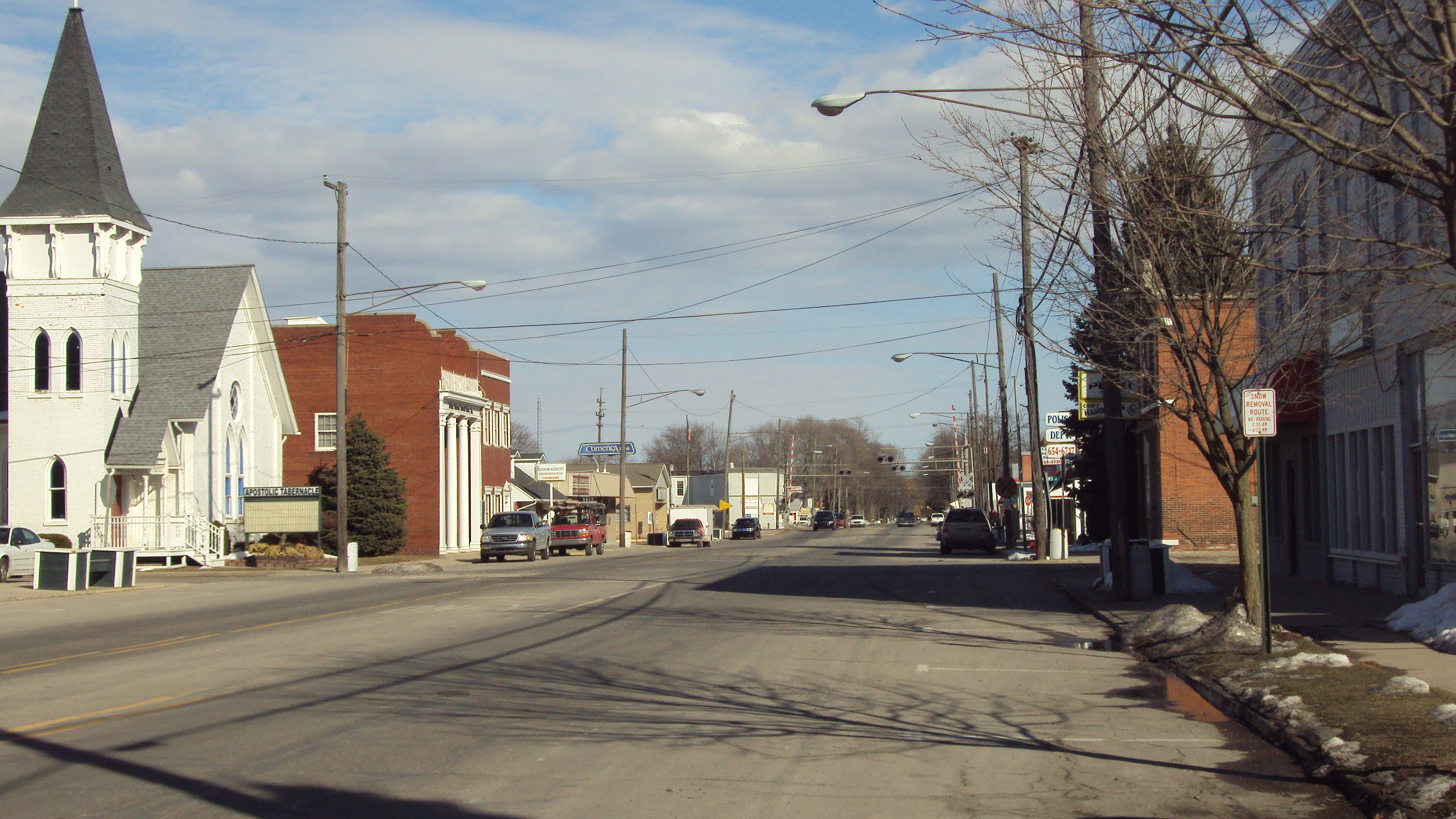 Downtown Carleton along Monroe Street